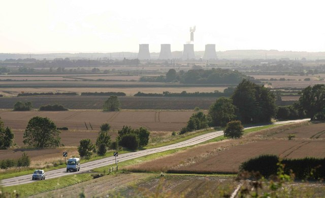 On a Clear day you can see for ever Looking towards the Gainsborough road the A1500. Power stations dominate here along with fields of corn. This picture was taken at 1915 hrs looking towards the sun.